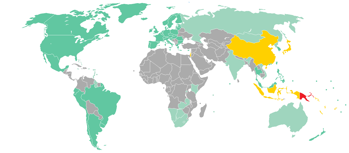 Visa policy of Papua New Guinea